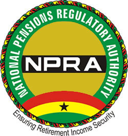 The Green is the Authority’s Corporate Colour *The coloured design around the circumference of the green band is a chain linked fence which stands for security *The flag represents our National identity *The Gold in the circle stands for the rich mineral resource which contributes to national economy